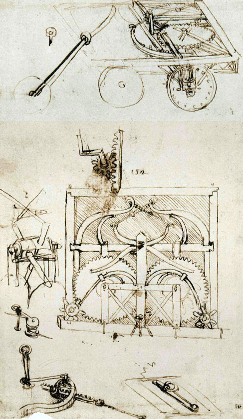 Self Propelled Carts